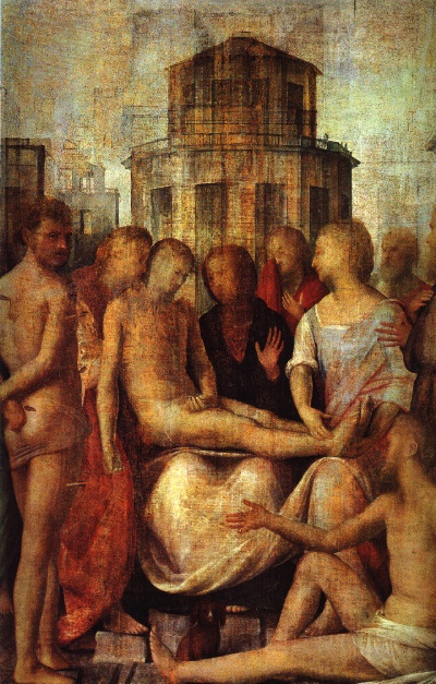 Pietà with St Sebastian and St Roch